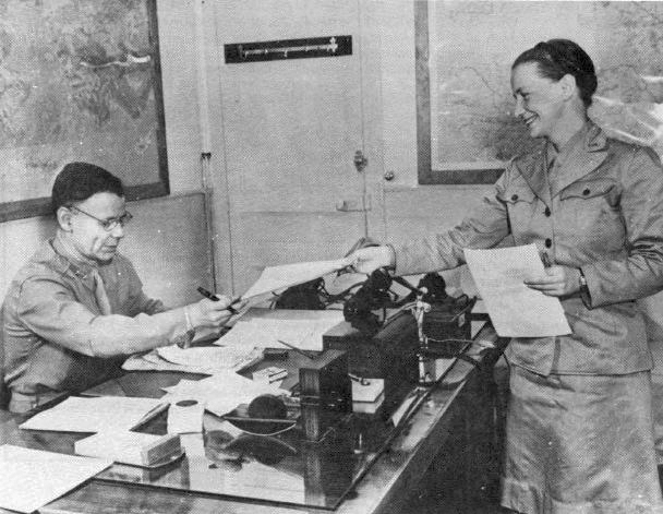 Smith and his wartime secretary, Ruth Briggs, 1943. Briggs remained in the Army after World War II and was Smith's executive assistant when he was Ambassador to the Soviet Union (1946-1949). (U.S. Army Photo. Courtesy of the Dwight D. Eisenhower Library)